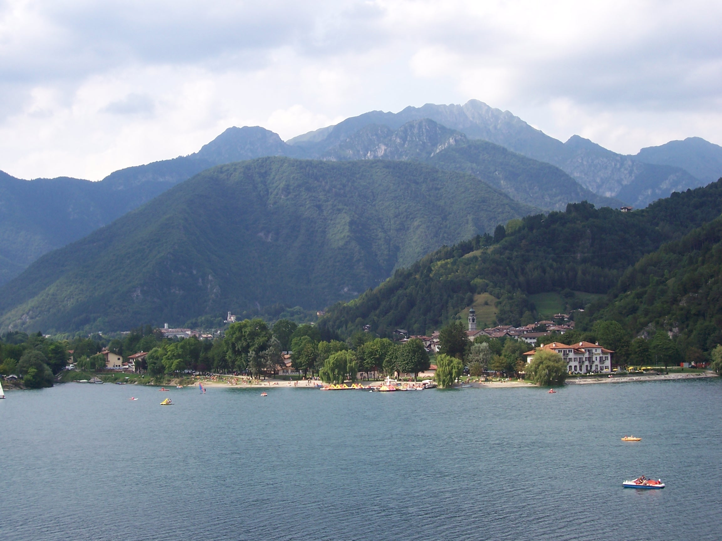 Villages Bezzecca (left) and Pieve di Ledro (right) in the Ledro Valley (Valle di Ledro), Italy